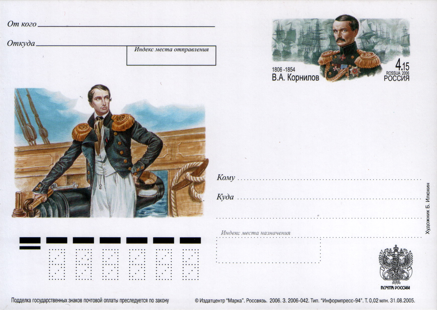 200th anniversary of V.A. Kornilov (1806 – 1854). The postal card with imprinted commemorative stamp, Russia, 2006, Catalogue of PTC Marka # 162. The commemorative stamp (4.15 rubles): the portrait of V.A. Kornilov. The illustration of the postal card uses as a original the fragment of the painting "V.A. Kornilov aboard the brig Themistocles" by Karl Bryullov (1835).